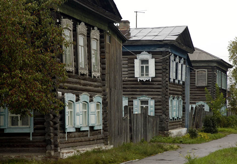 Wooden two-storey houses in Tara, Omsk Oblast, Russia. Ulitsa Karbysheva, Nos 10, 8, 6 (left to right)